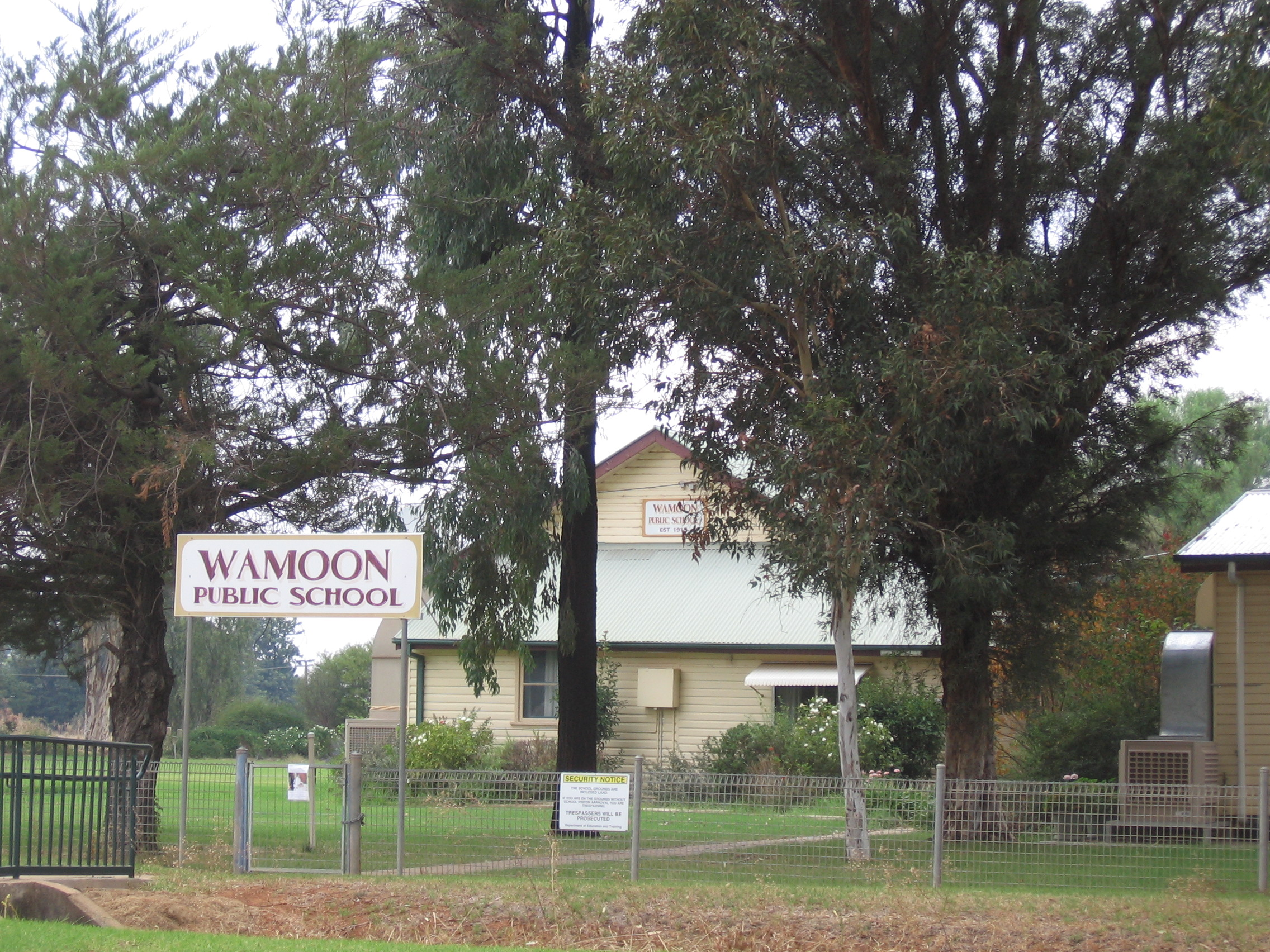 Wamoon Public School was established in the Village of Wamoon, New South Wales in 1913.